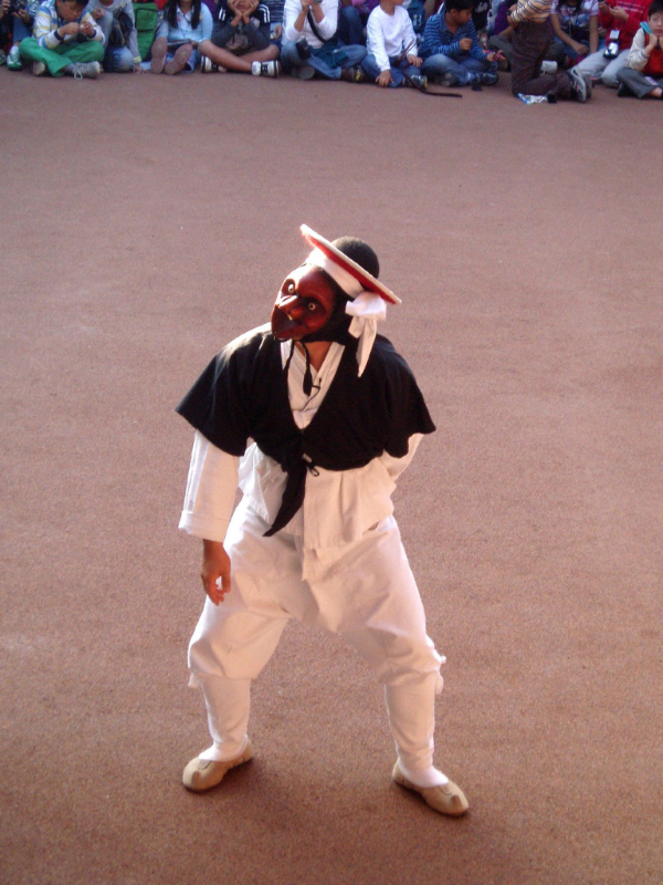 Hahoe Folk Village located in Andong, South Korea